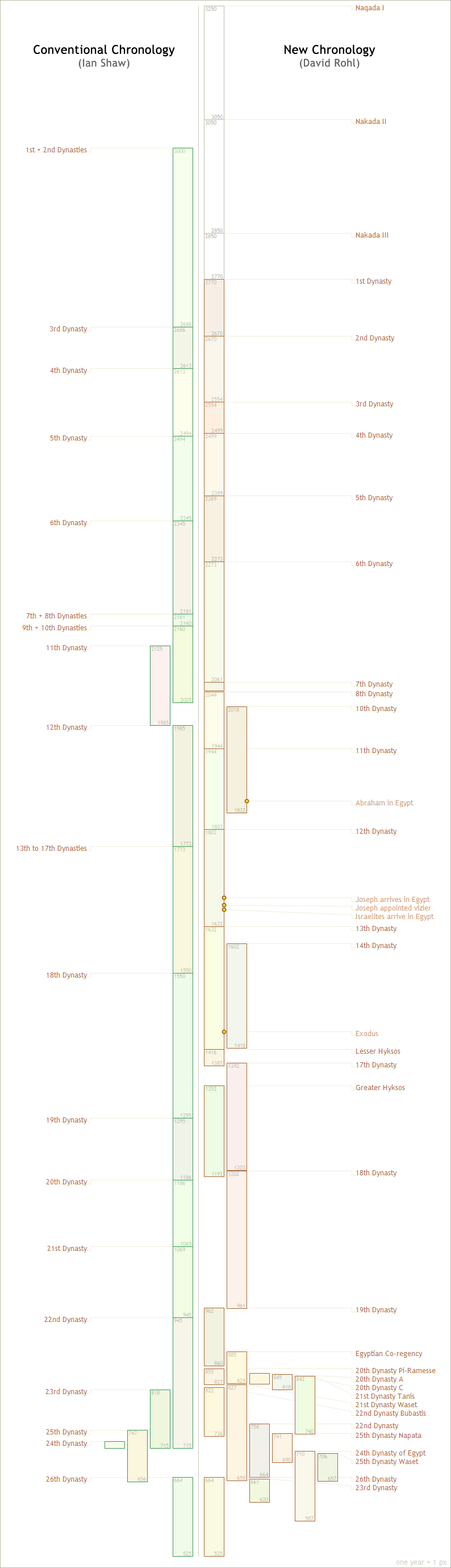 A comparative overview of :en:Egyptian chronology|chronologies for Egypt , comparing the Egyptian_chronology#Conventional_chronology|conventional chronology, based on the works of :en:Ian Shaw (Egyptologist)|Ian Shaw , and the :en:New Chronology (Rohl)|New Chronology of :en:David Rohl|David Rohl .